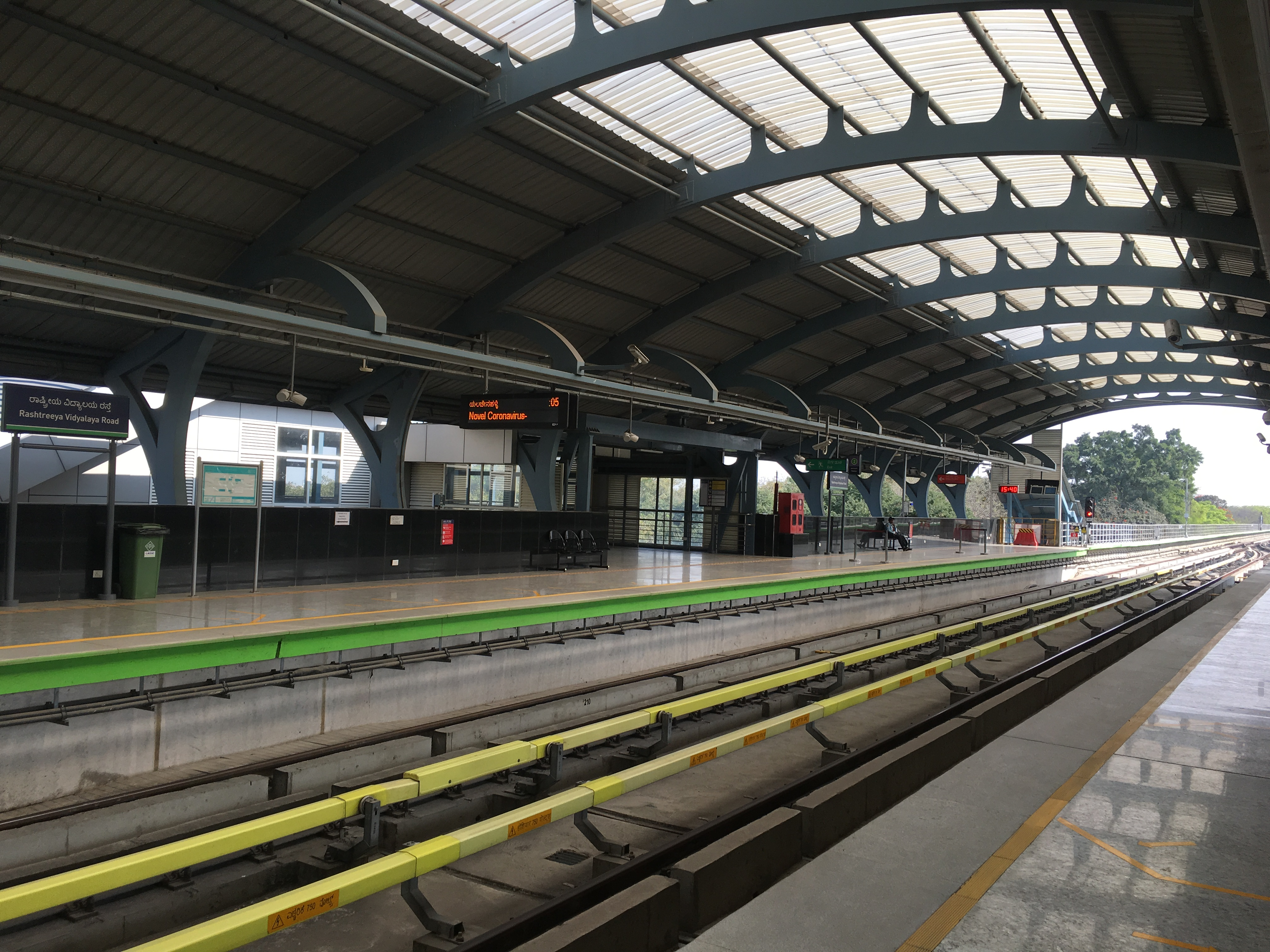 Rashtreeya Vidyalaya Road metro station